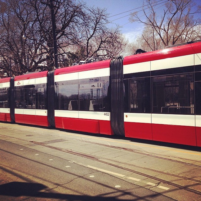 Articulated #ttc snake #streetcar #toronto